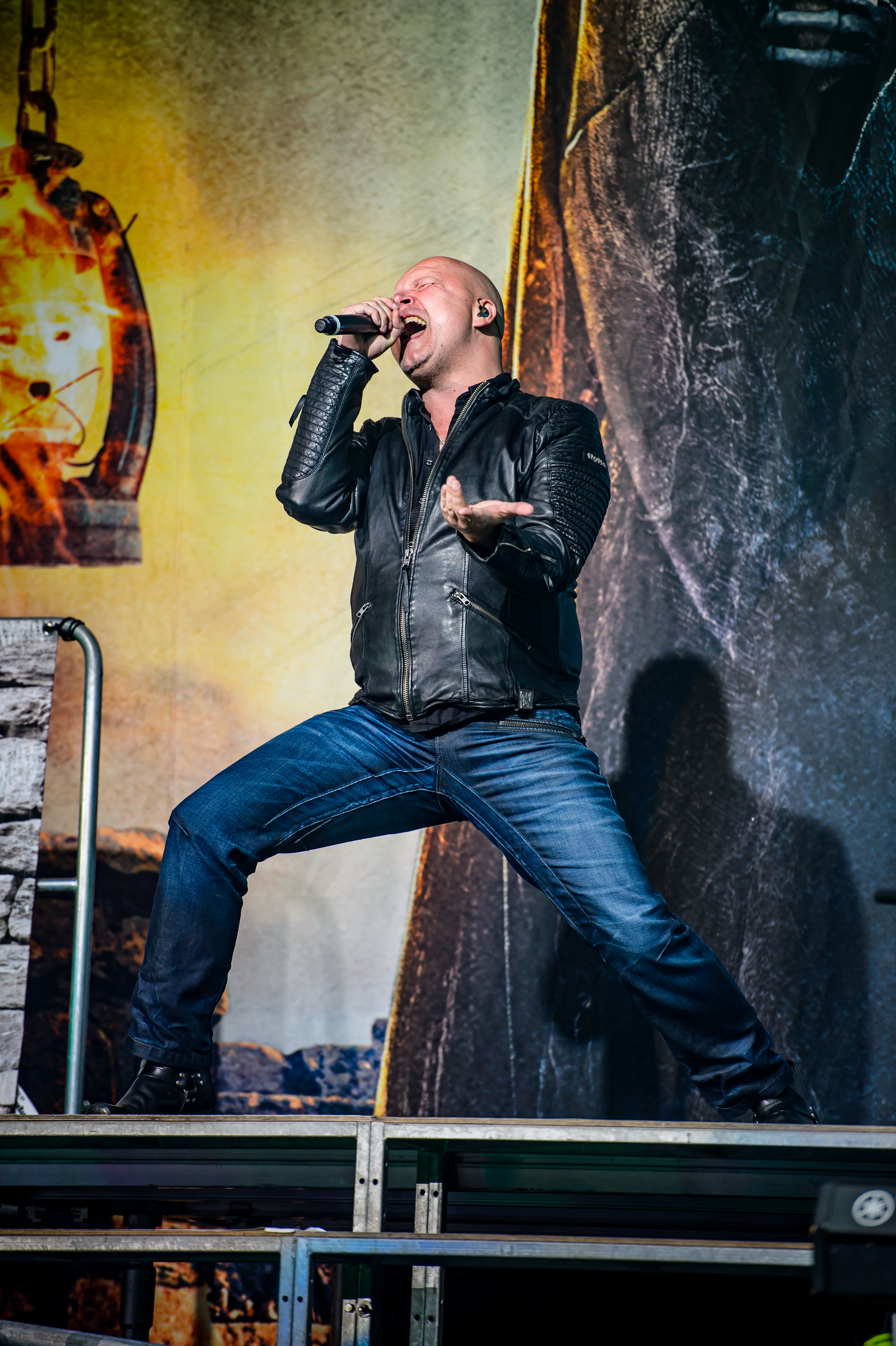 Avantasia; RockFels 2016 - Loreley